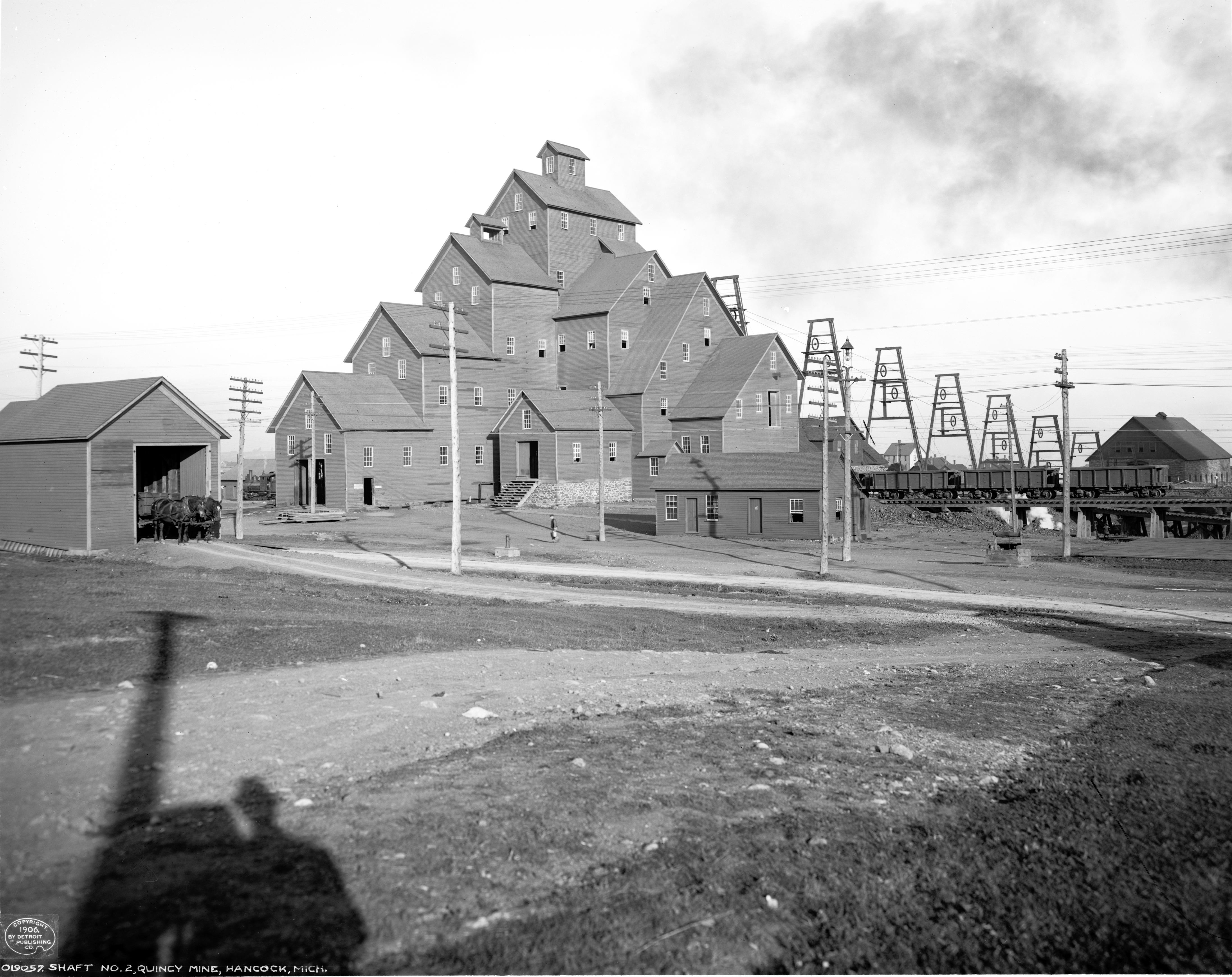 Quincy mine shaft #2 with the old hoist house at the right in Hancock, Michigan, c1906. This structure was eventually replaced with the steel structure at the site today.